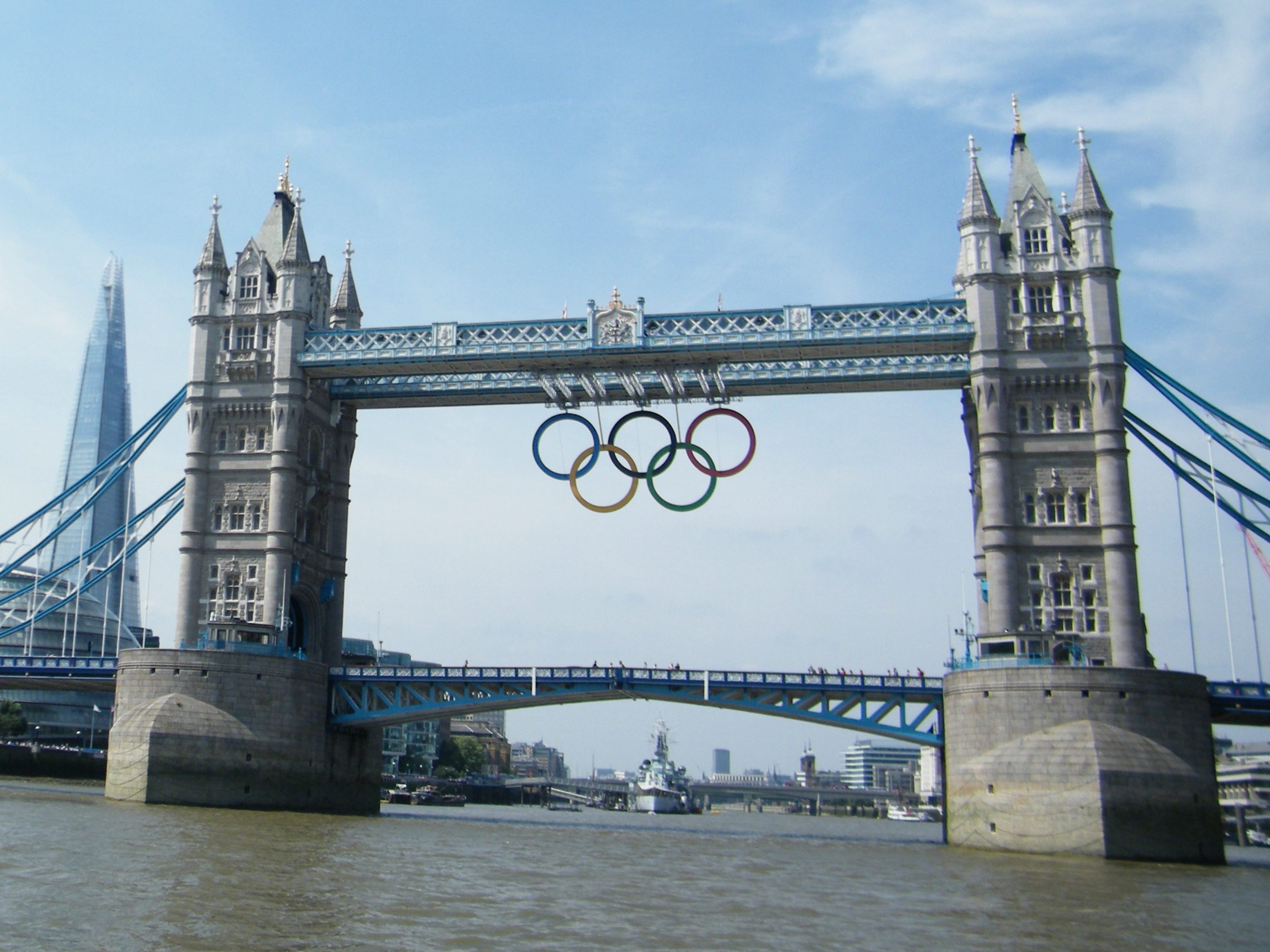 Tower Bridge Olympics Summer 2012